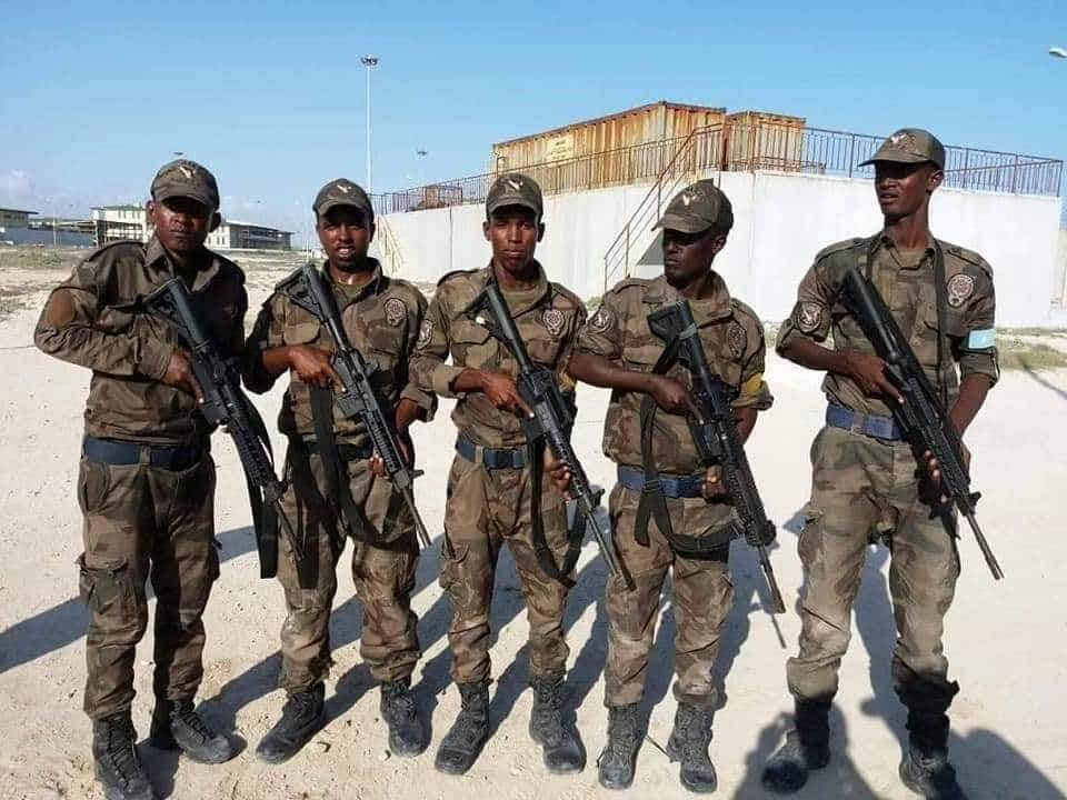 Police officers from the new Somali Police Force Special Operations Battalion, are seen here patrolling the Mogadishu Green Zone, which includes several highly sensitive sites, such as the Aden Adde International Airport as well as the Headquarters of the United Nations Mission to Somalia